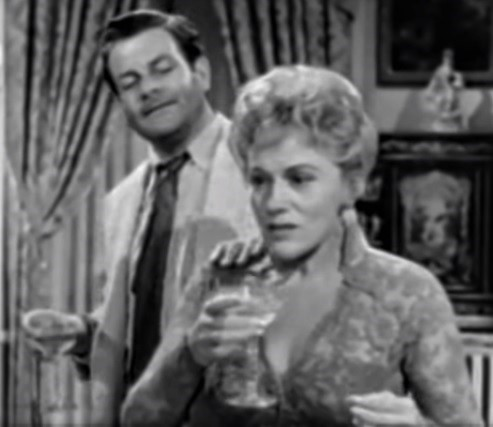 Sean McClory & Jan Miner in the TV series One Step Beyond, episode The Inheritance - cropped screenshot